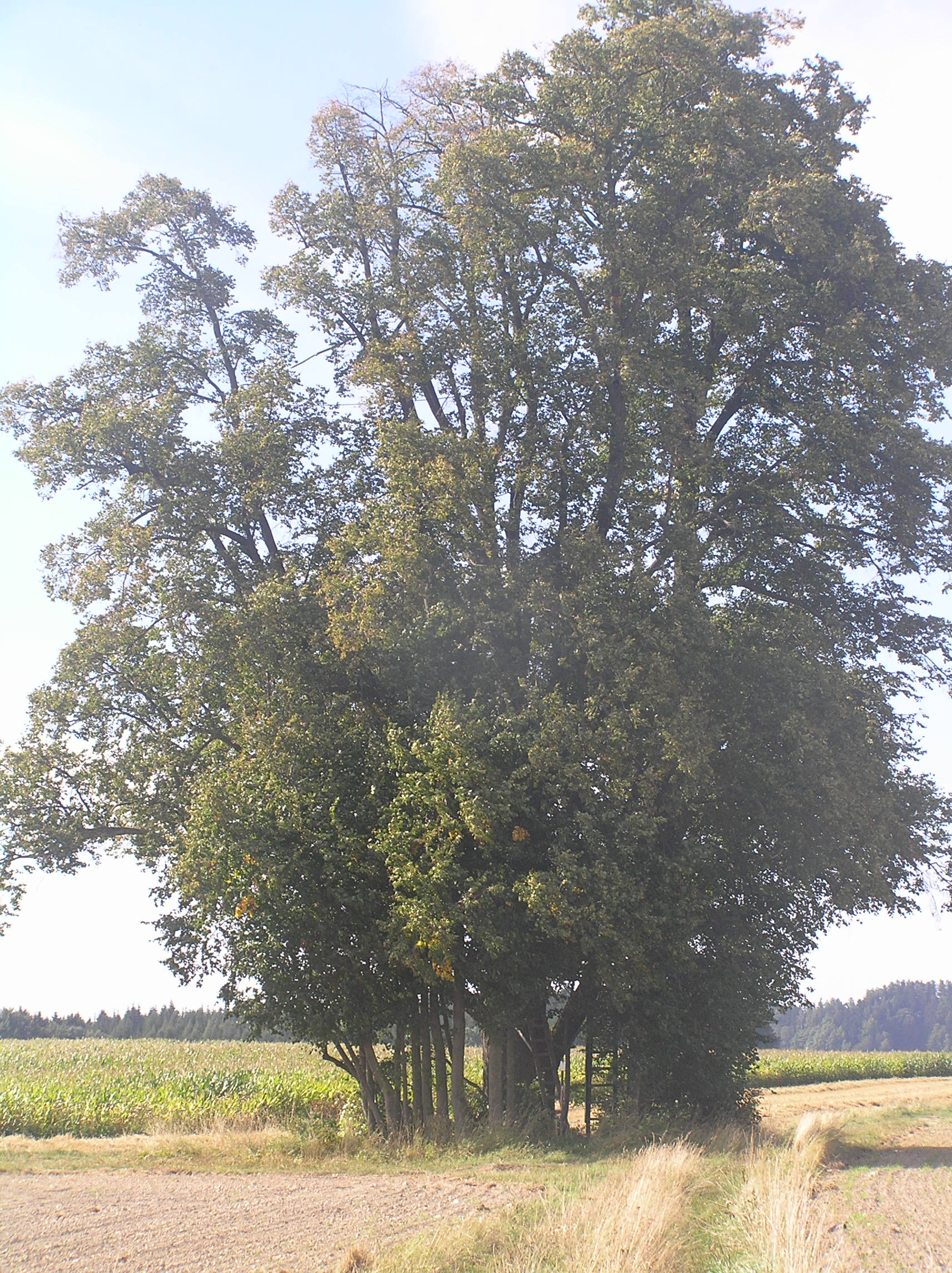 Bouchalovy lípy, Pastviny, Czech Republic